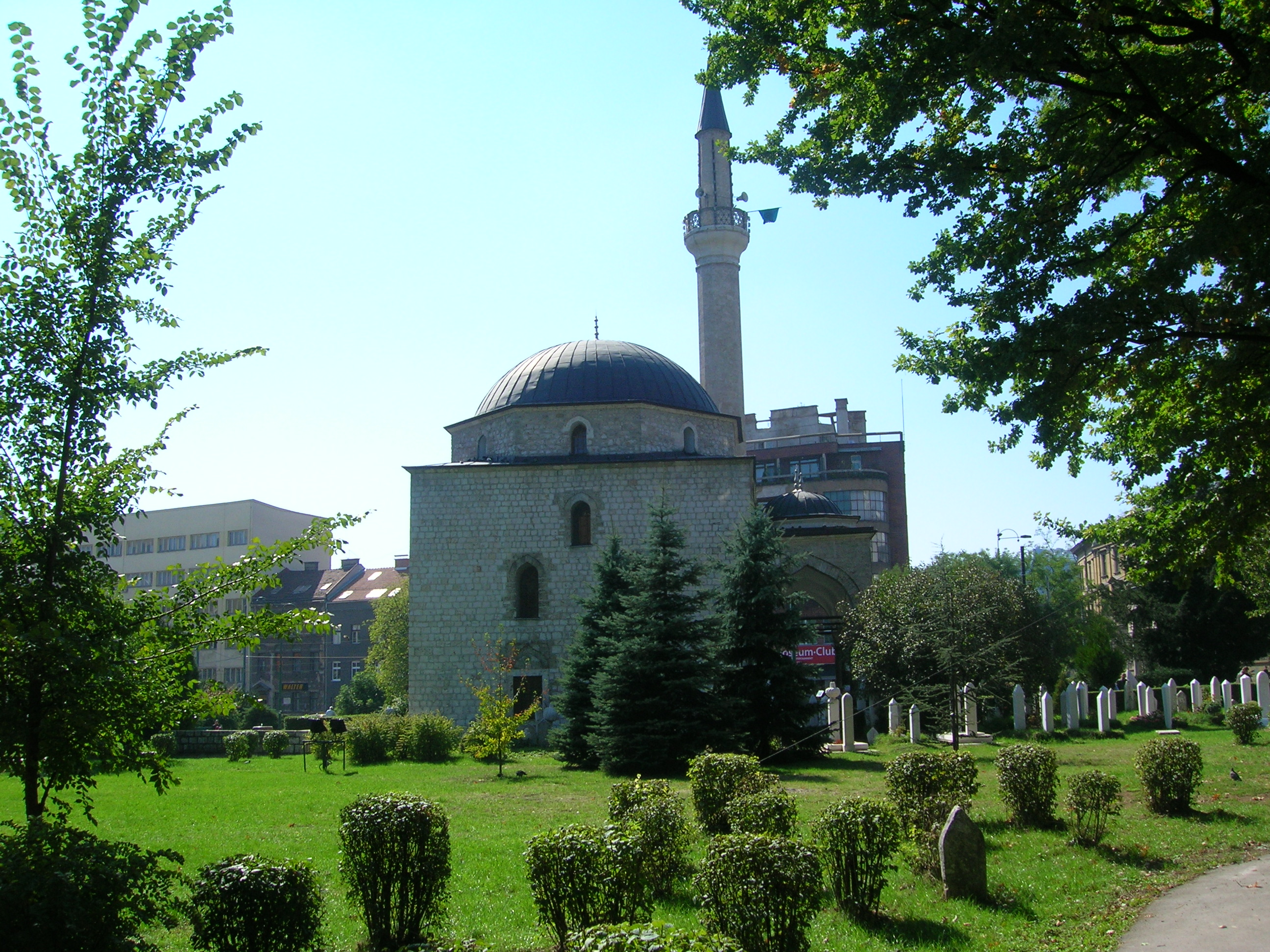 This place looks very serene compared to the rest of Sarajevo